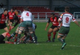 Waterloo playing Blundellsands